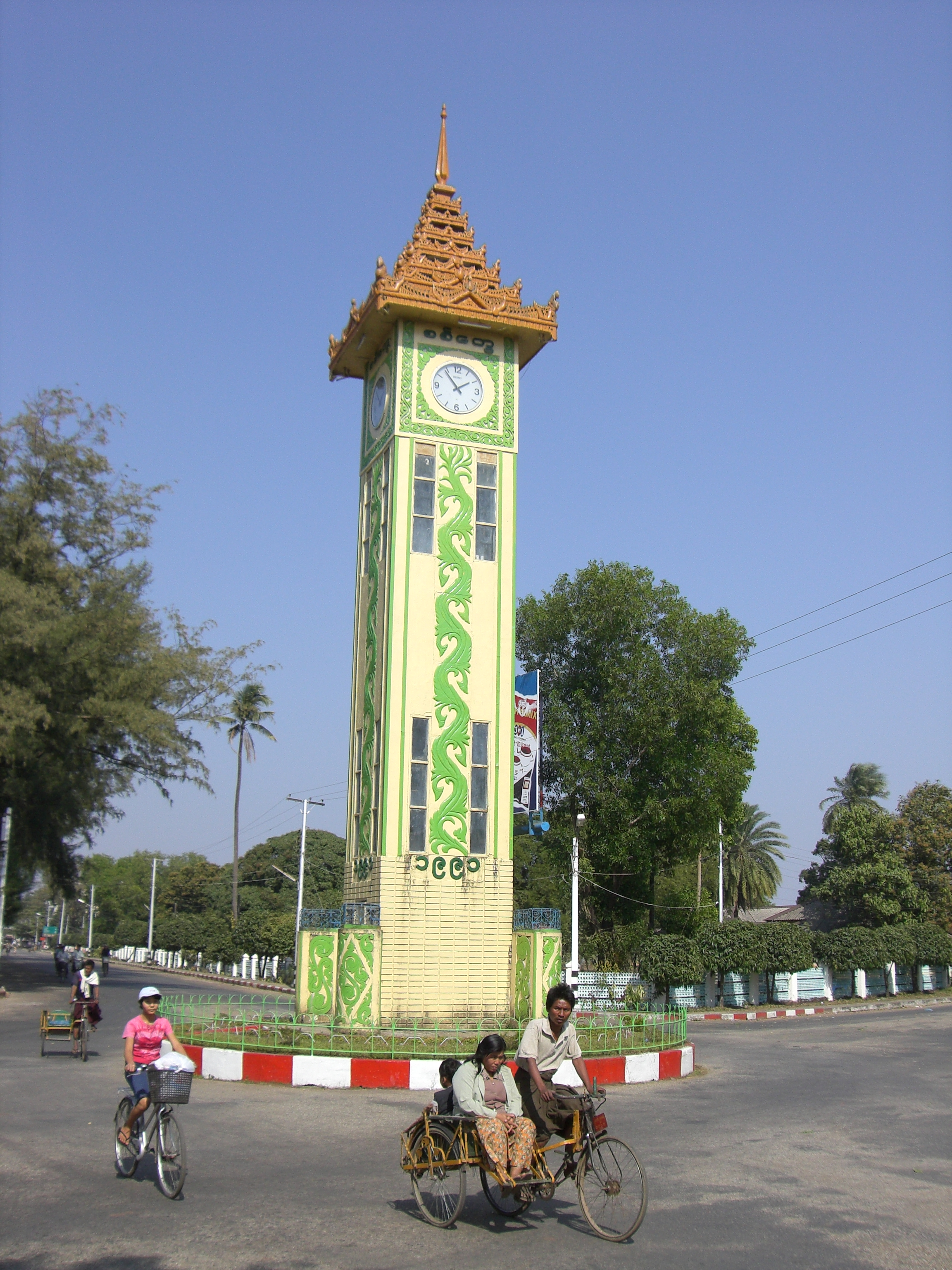 The new (Burmese) clock tower in Sittwe (as opposed to the older colonial-era clock tower).